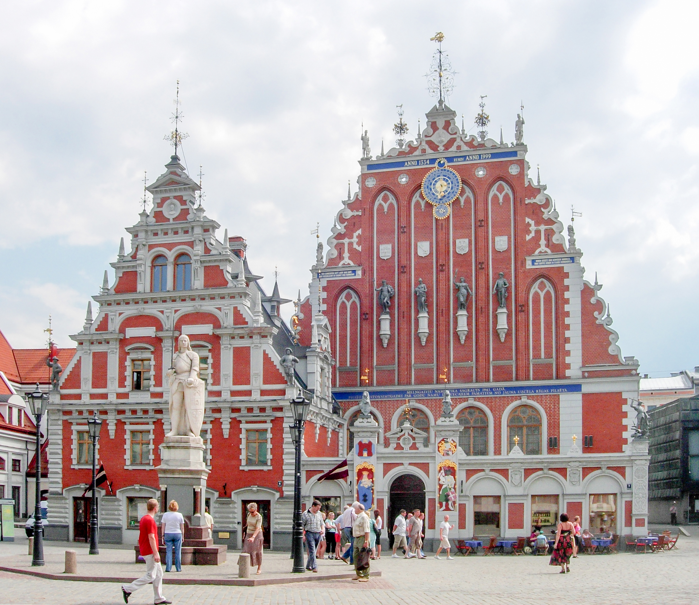 Old Riga Buildings.